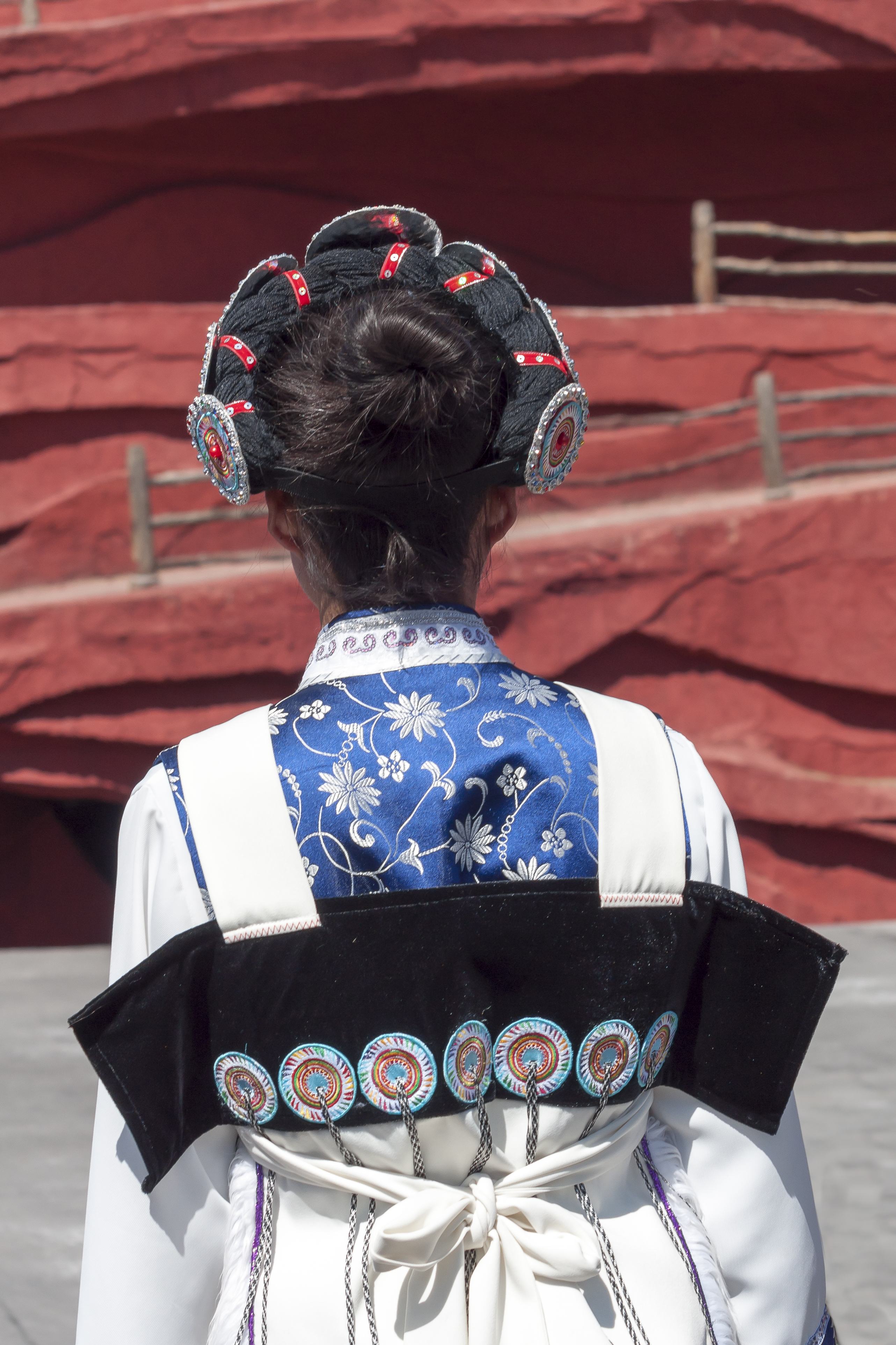 Lijiang, Yunnan, China: Traditional clothing of a Naxi woman (backside view)